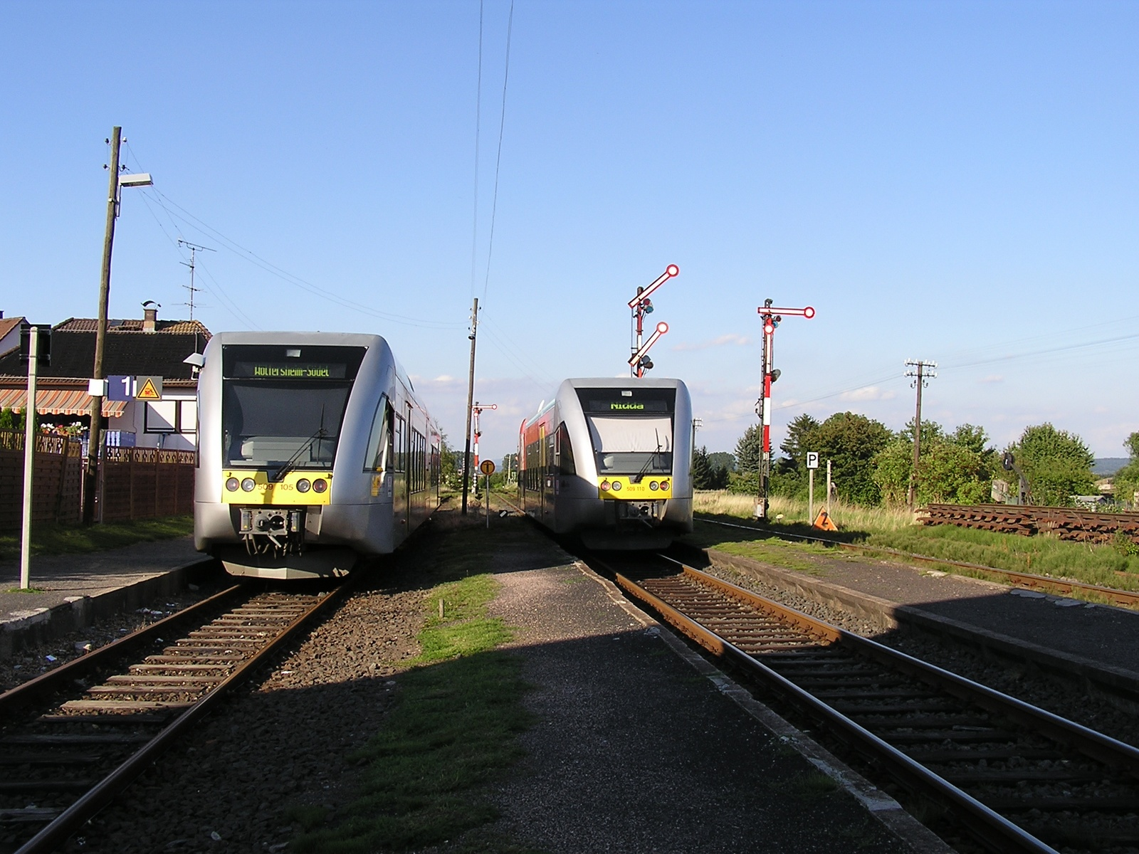 Station Beienheim at the Horlofftalbahn (lines Friedberg-Mücke and Beienheim-Schotten). On the left a train to Wölfersheim, on the right to Nidda (both GTW 2/6).